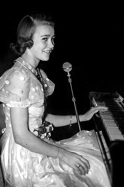 Alice Babs Sjöblom 1941